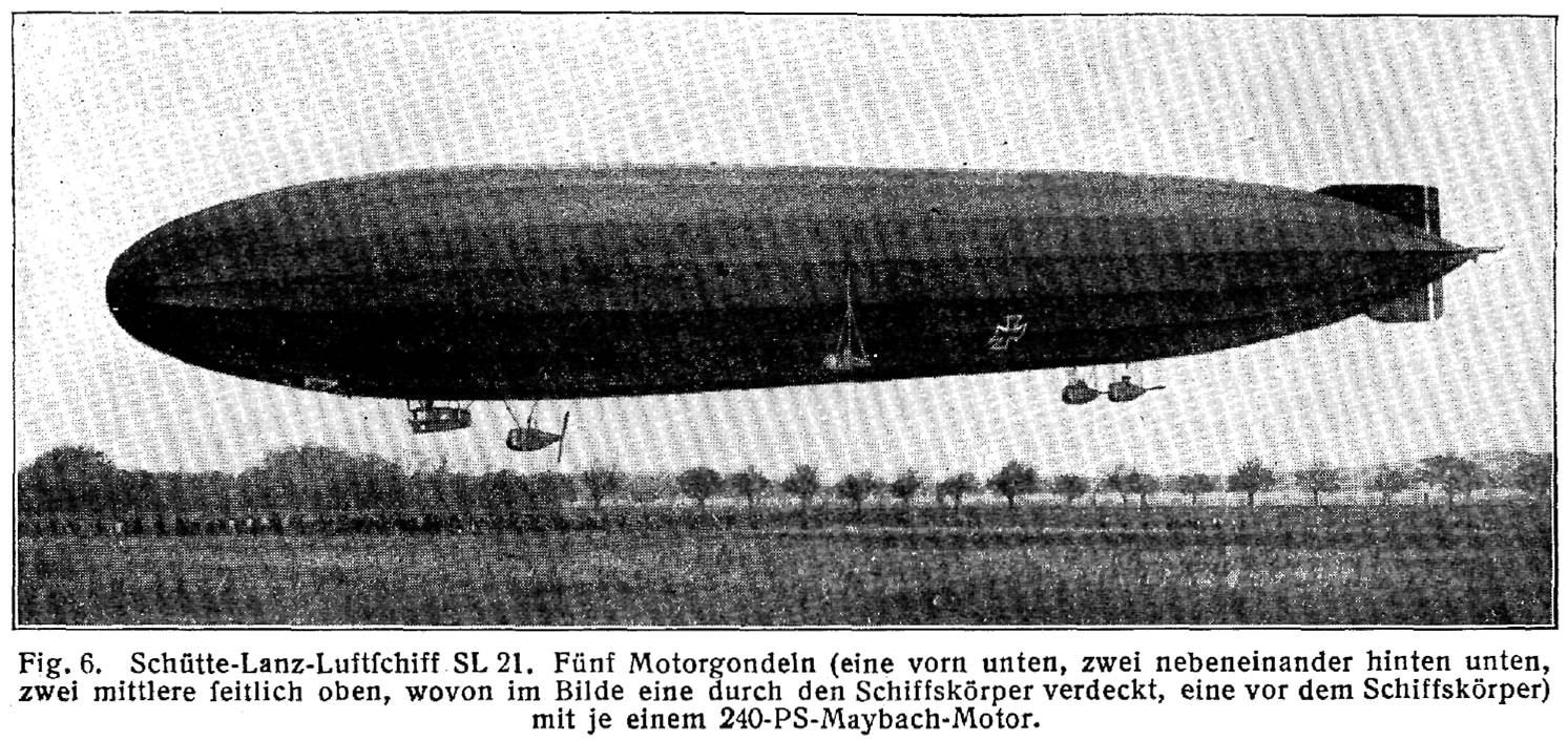 Fig. 6. Schütte-Lanz-Luftschiff Sl 21. Five engine gondolas (one fore under, two aft adjacent under, two middle higher whereby one is obscured by the hull the other lies in front of the hull), each with a 240 PS Maybach engine